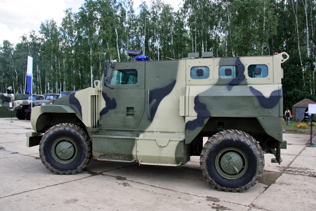 VPK-3924 Medved SPM-3 russian MRAP vehicle